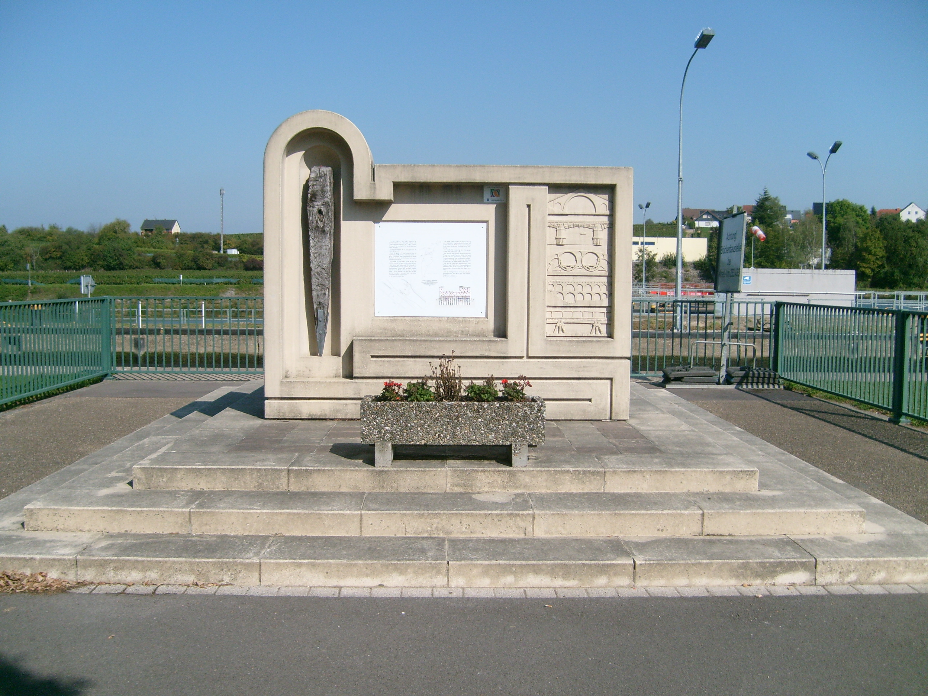 Roman bridge monument, 8th station along cultural path in Stadtbredimus, Luxembourg.